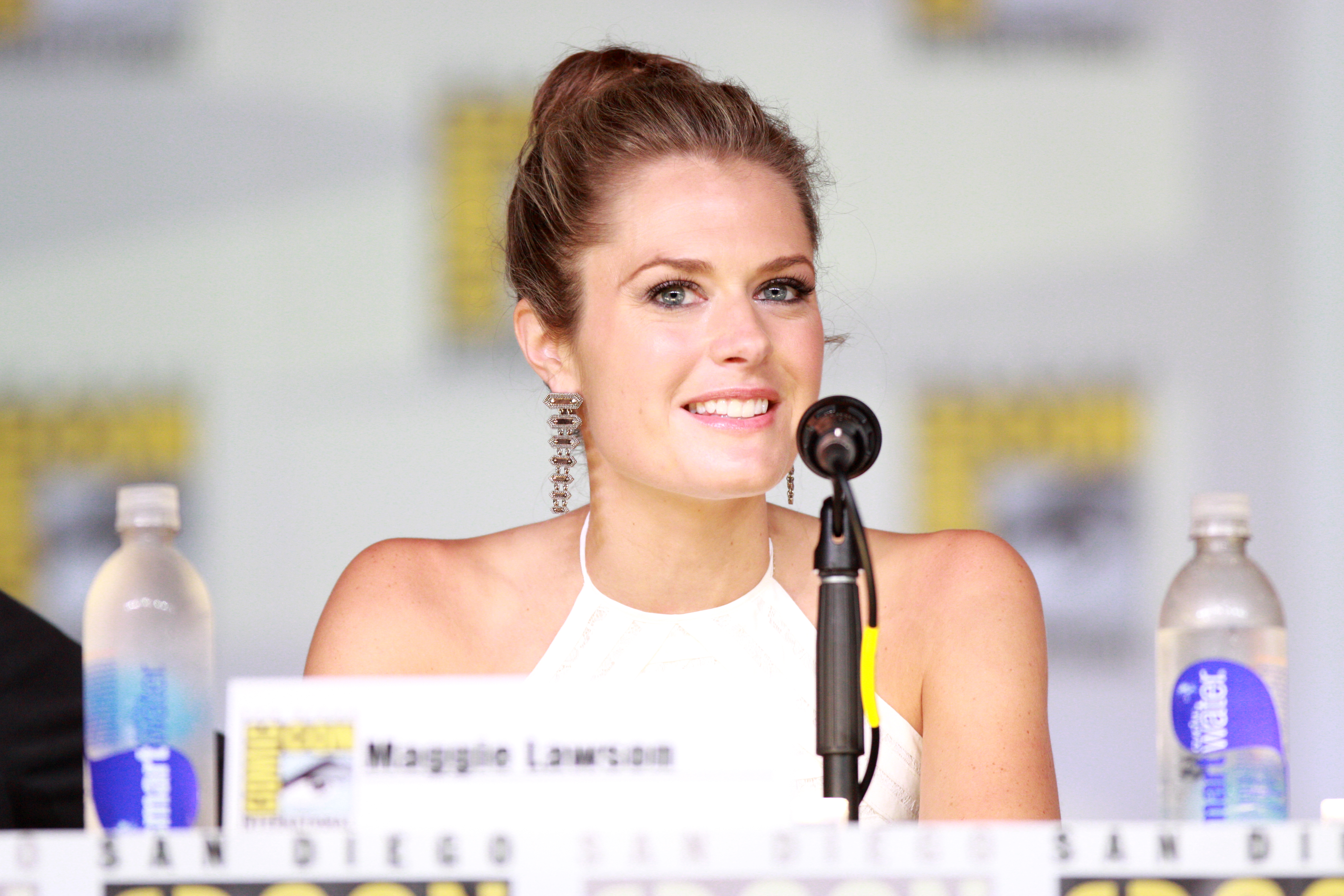 Maggie Lawson speaking at the 2013 San Diego Comic Con International, for "Psych", at the San Diego Convention Center in San Diego, California.